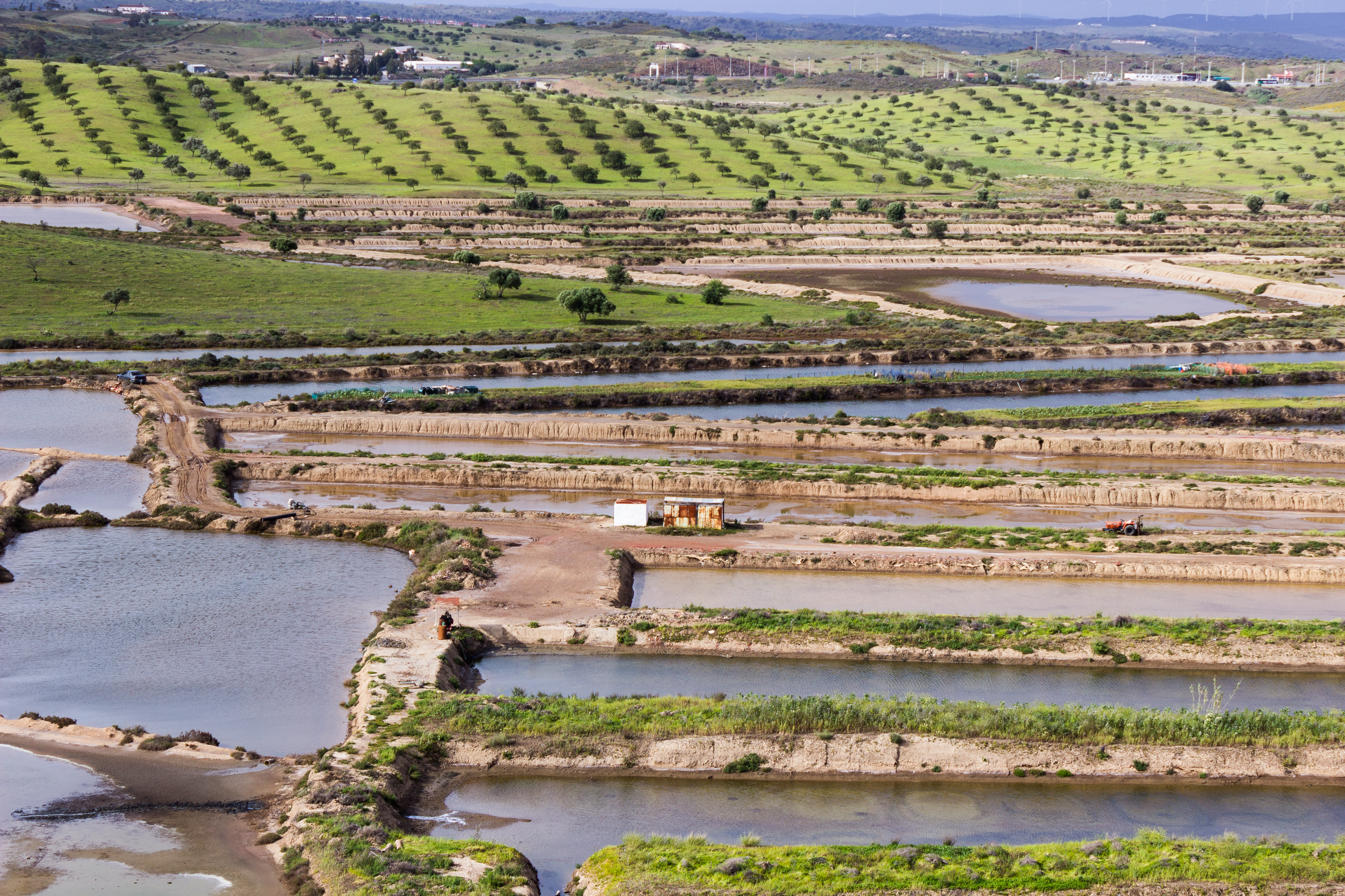 A view on Ria Formosa from the castle in Castro Marim